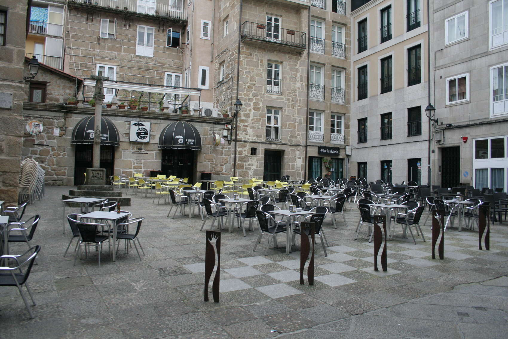 Square of Eironciño dos Cabaleiros. Ourense (Spain)